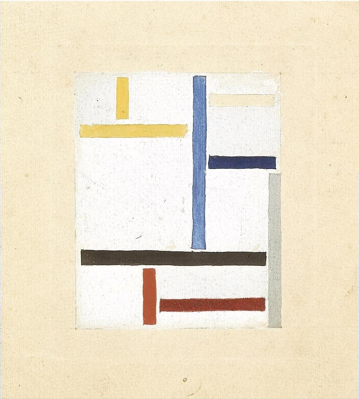 Theo van Doesburg. Study for Composition XXV. 1923. Pencil and gouache on paper. 12.5 × 11.5 cm. Otterlo, Kröller-Müller Museum (inv.nr. AB4811).